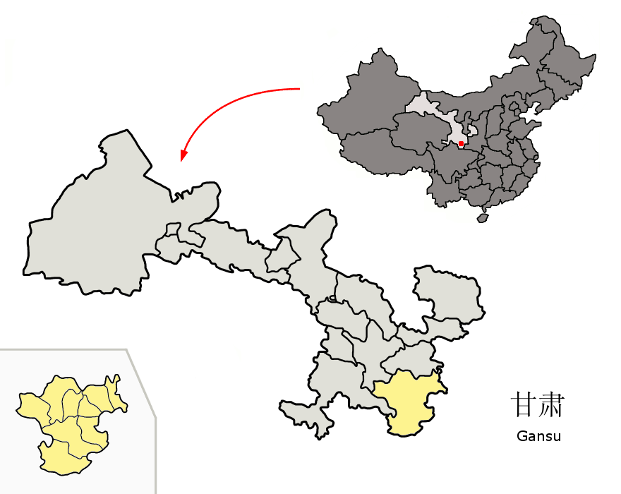 Location of Longnan Prefecture (yellow) within Gansu province of China Map drawn in october 2007 using various sources, mainly : Gansu province administrative regions GIS data: 1:1M, County level, 1990 Gansu Counties map from